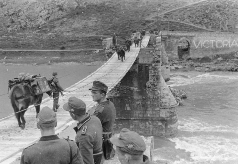 Operation "Ball Lightning". Members of the 99th Regiment, 1st Mountain Division, crossing over their improvised, plank bridge on the piers of the demolished Mehmed Paša Sokolović Bridge in Višegrad (on the right in the distance, there is a huge German inscription "Victoria", victory). The famous bridge on the Drina river was destroyed by the Partisans, members of the IV Krajina Brigade (of the V Krajina Division), during their retreat before the advancing German troops.[1] Srpskohrvatski / српскохрватски: Operacija "Kugličasta munja". Pripadnici 99. puka 1. brdske divizije prelaze preko svog improvizovanog, daščanog mosta na stupcima porušenog Mosta Mehmed-paše Sokolovića u Višegradu (sa desne strane u daljini se vidi ogromni nemački natpis "Viktorija", pobeda). Čuveni most na Drini srušili su partizani, pripadnici IV krajiške brigade (V krajiške divizije) tokom povlačenja pred nadolazećim nemačkim trupama.